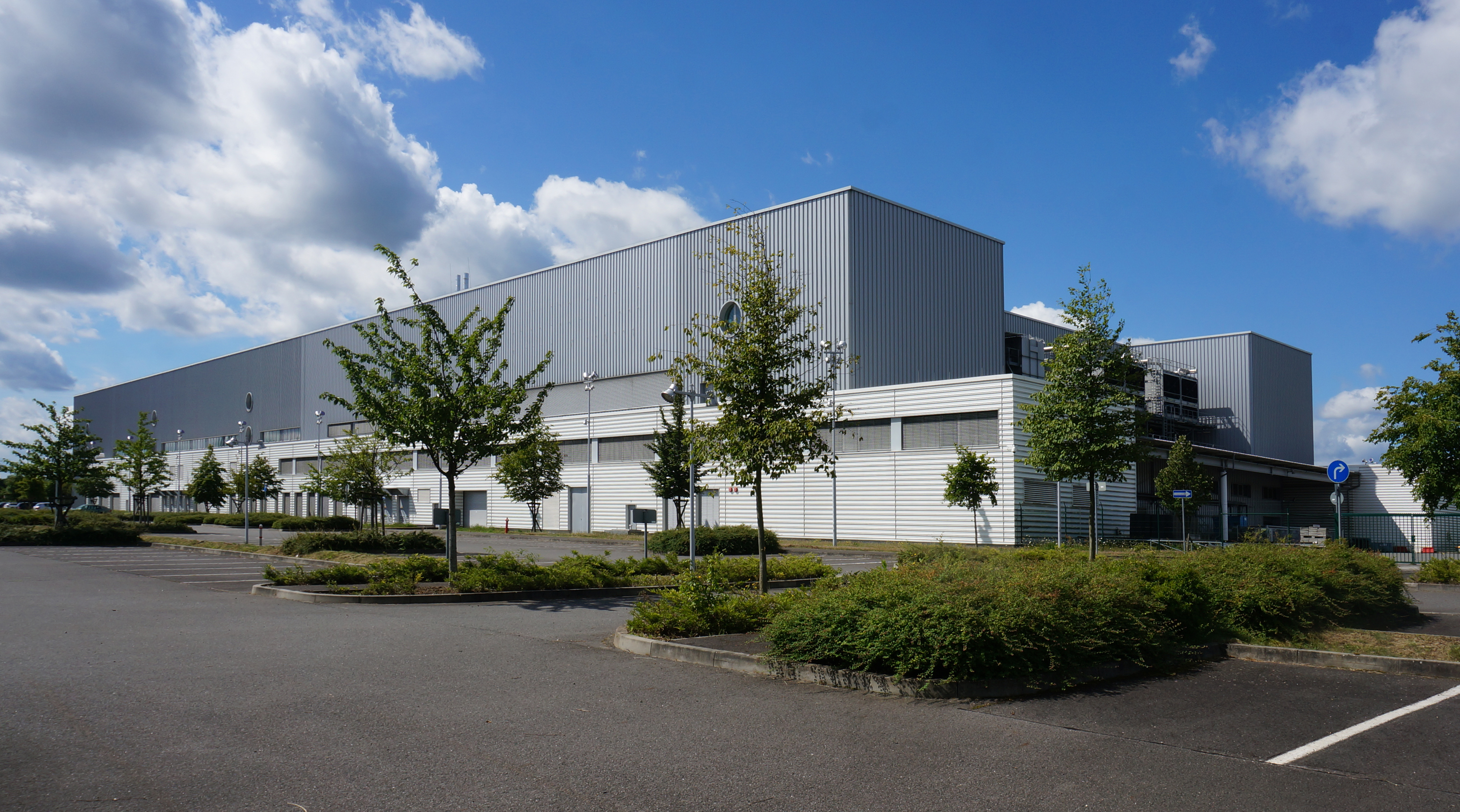 Image of the former "Chipfabrik Frankfurt (Oder)", later a factory for solar modules. It then belonged to Conergy company, now it is a plant of the Chinese "Astronergy Solarmodule GmbH".